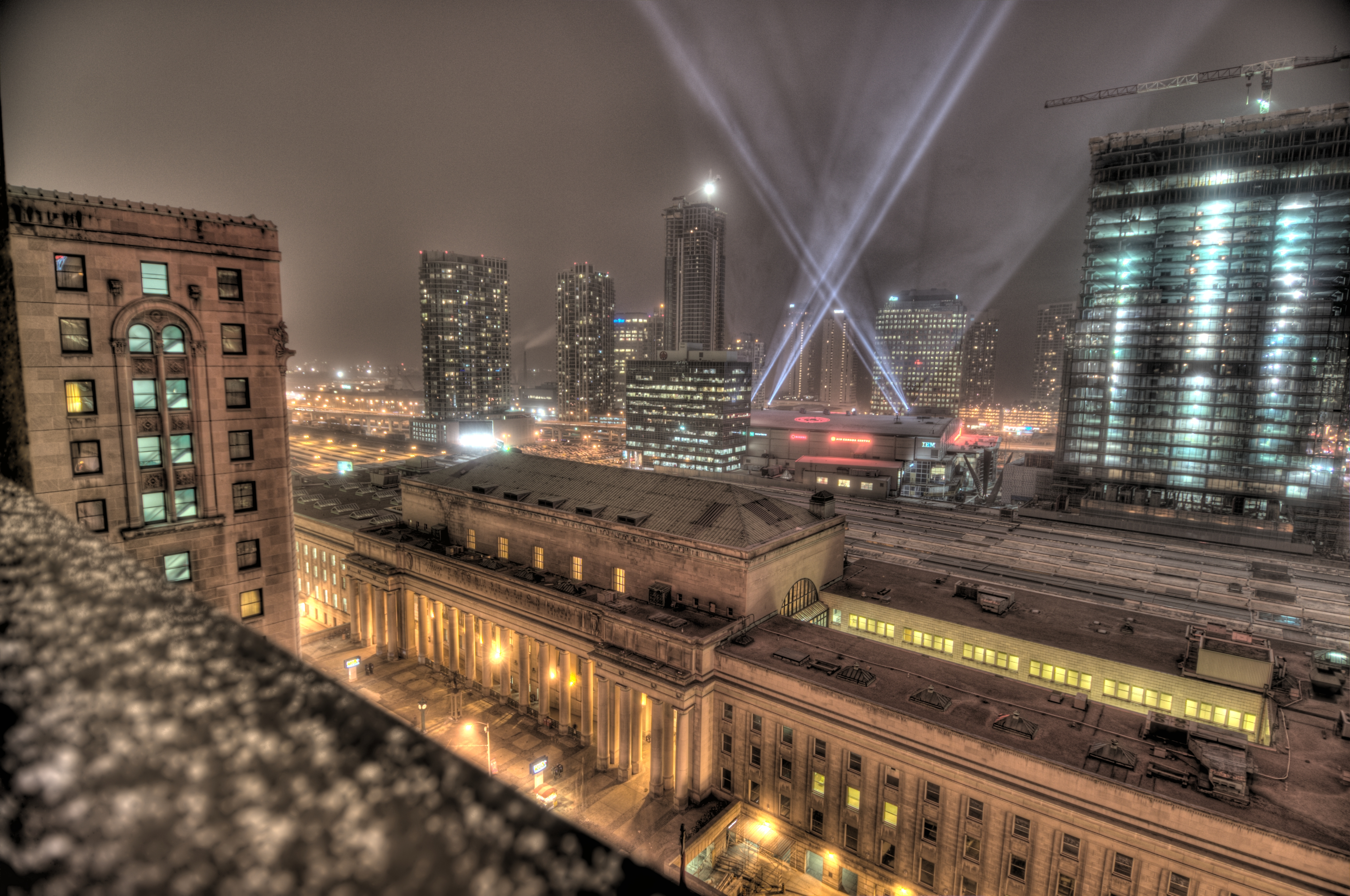 Union Station on Front Street West, Toronto, Canada, as viewed from the Royal York Hotel. Searchlights at Air Canada Centre visible behind the train station.